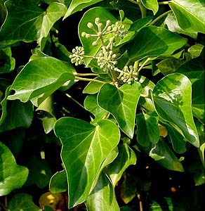 Image:Hedera hibernica.jpg by User:Wouterhagens split into components: 1. flower shoot (see also :Image:Hedera hibernica2.jpg)